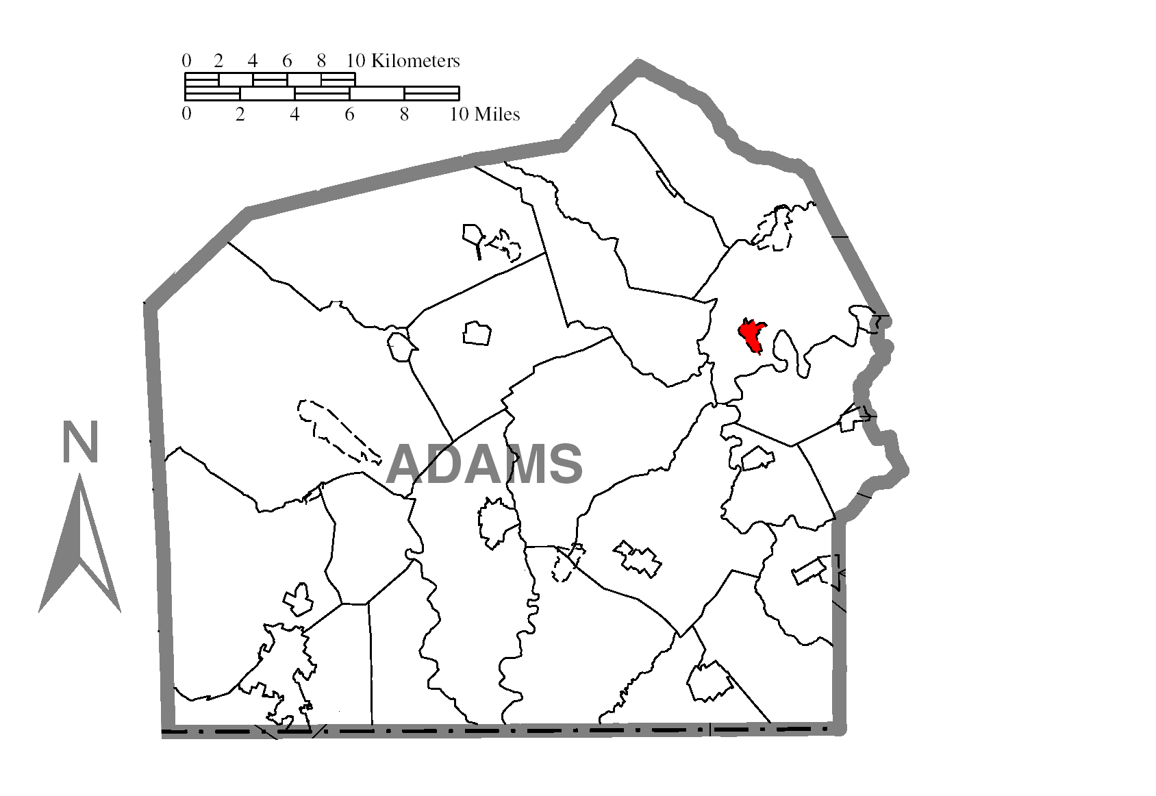 A map of Adams County showing Hampton, Pennsylvania (alternate) highlighted on the map.